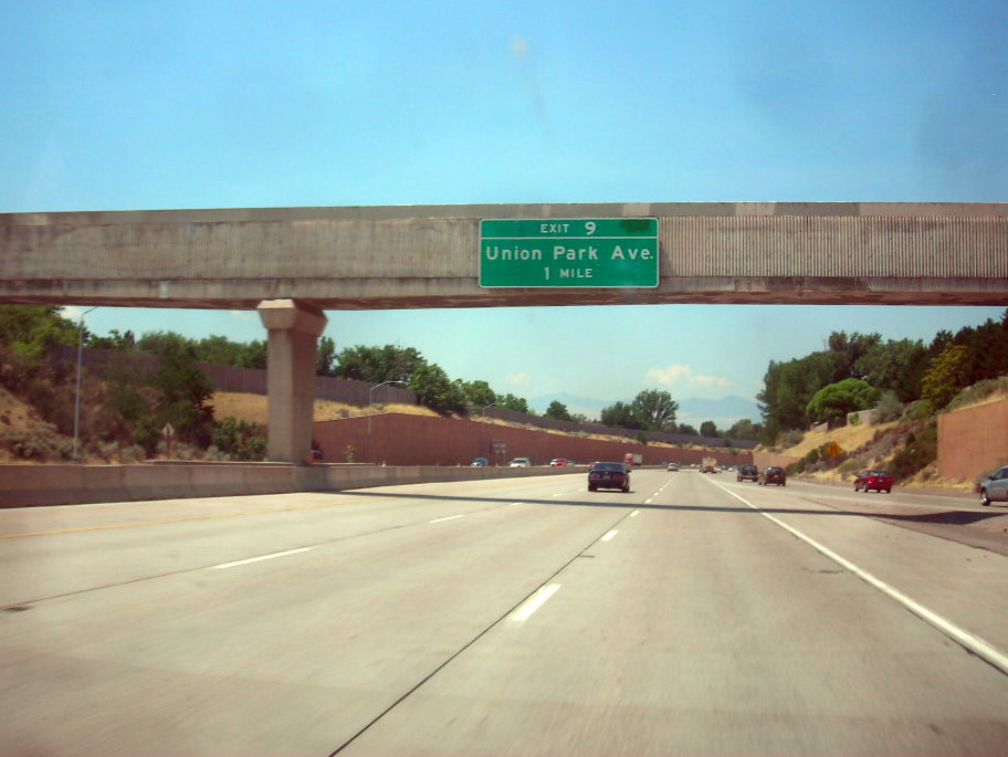 I-215 westbound in Cottonwood Heights.